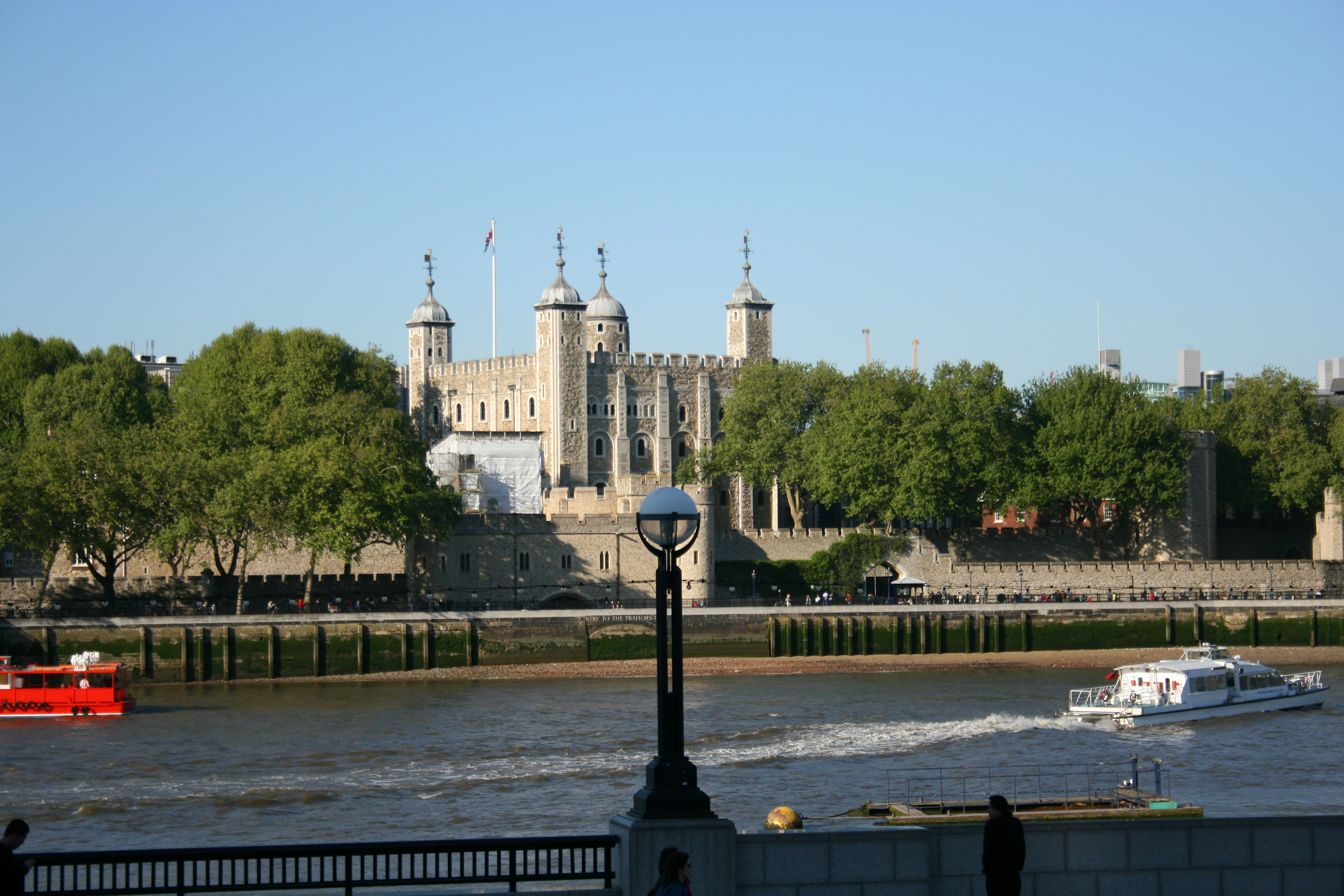 Tower of London|London